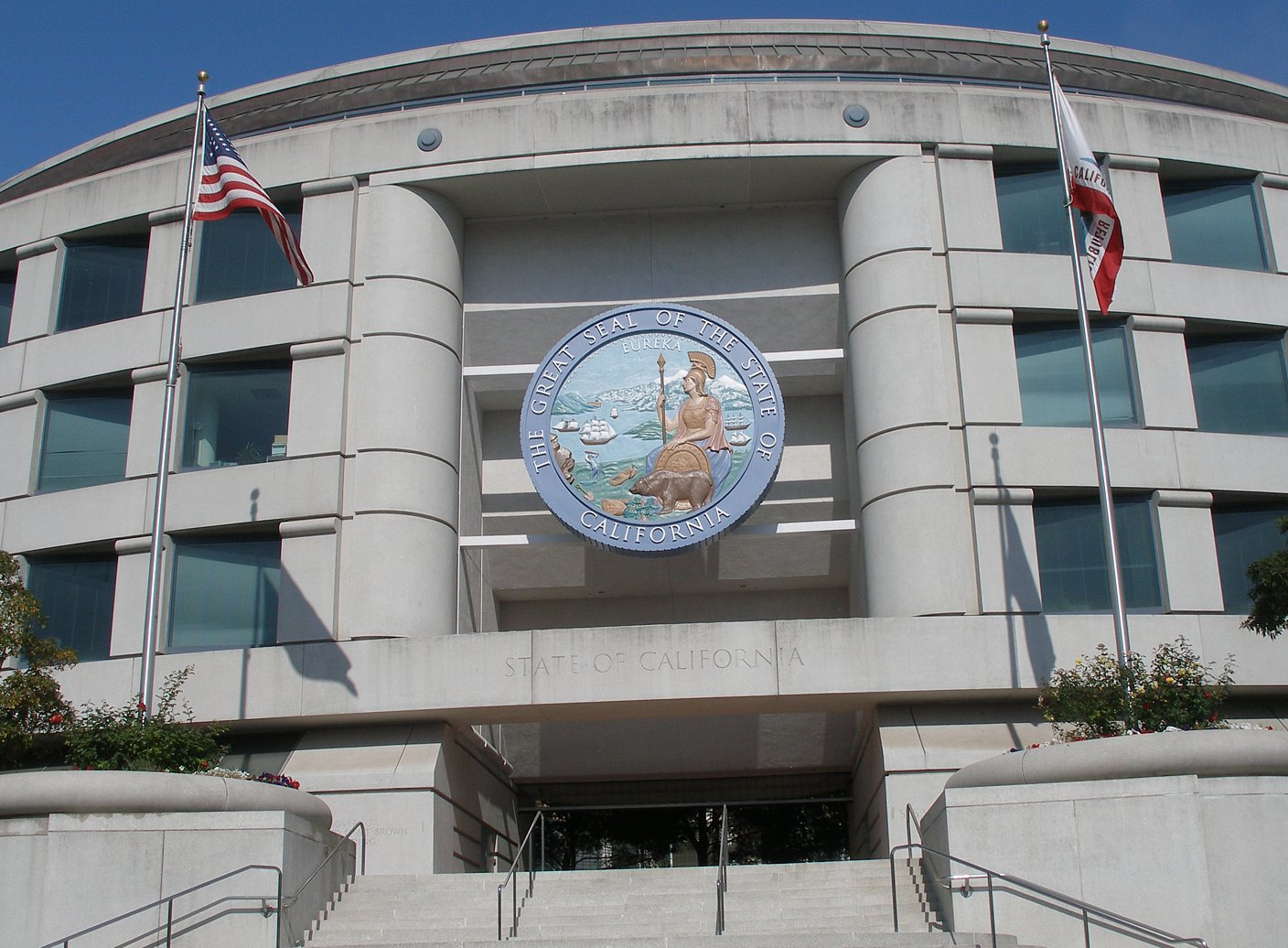 The Edmund G. "Pat" Brown State Office Building, San Francisco. The primary tenant of this building is the California Public Utilities Commission. Photographed by user Coolcaesar on August 31, 2006.